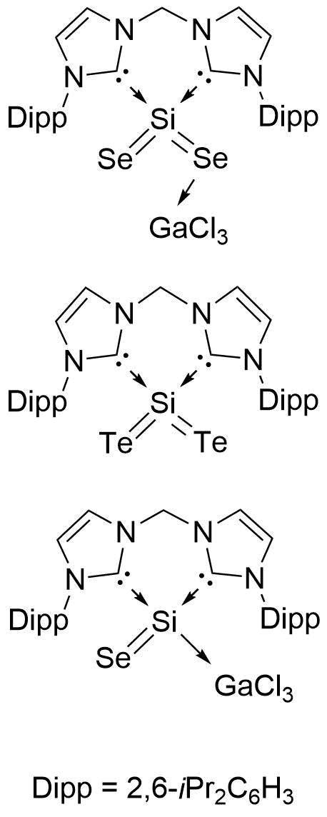 Schematic of Se and Te silicon complexes that can be synthesized from silylones, as described in Figure 6 of Yao et al. (